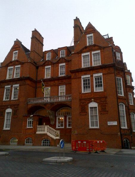 The Jamaican High Commission in London - 1 Prince Consort Road, London SW7 2BZ, United Kingdom - as photographed in Winter 2011